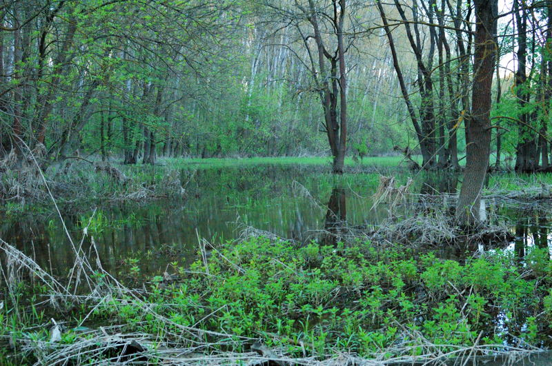 Flooded forests alongside the Morava river in spring.